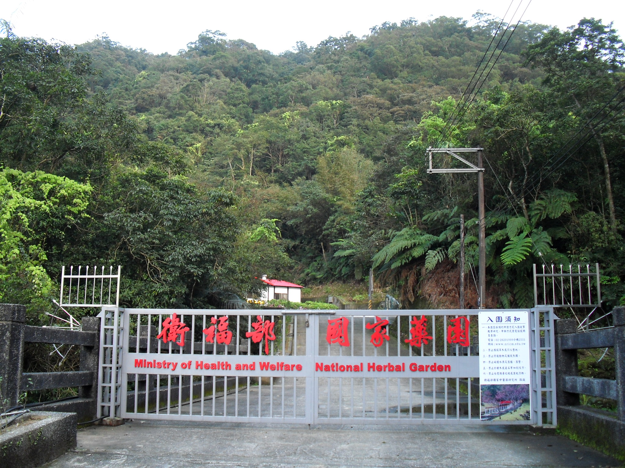 National Herbal Garden, Ministry of Health and Welfare, Republic of China.